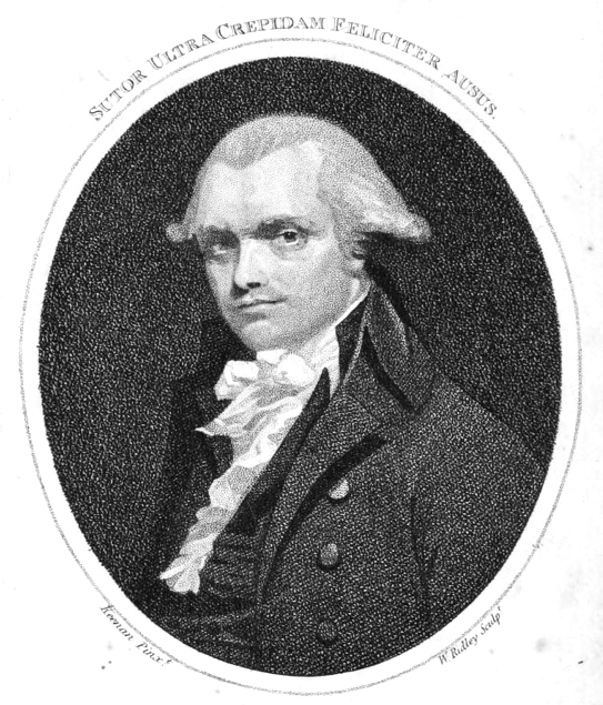 Portrait of London bookseller James Lackington (1746-1815)